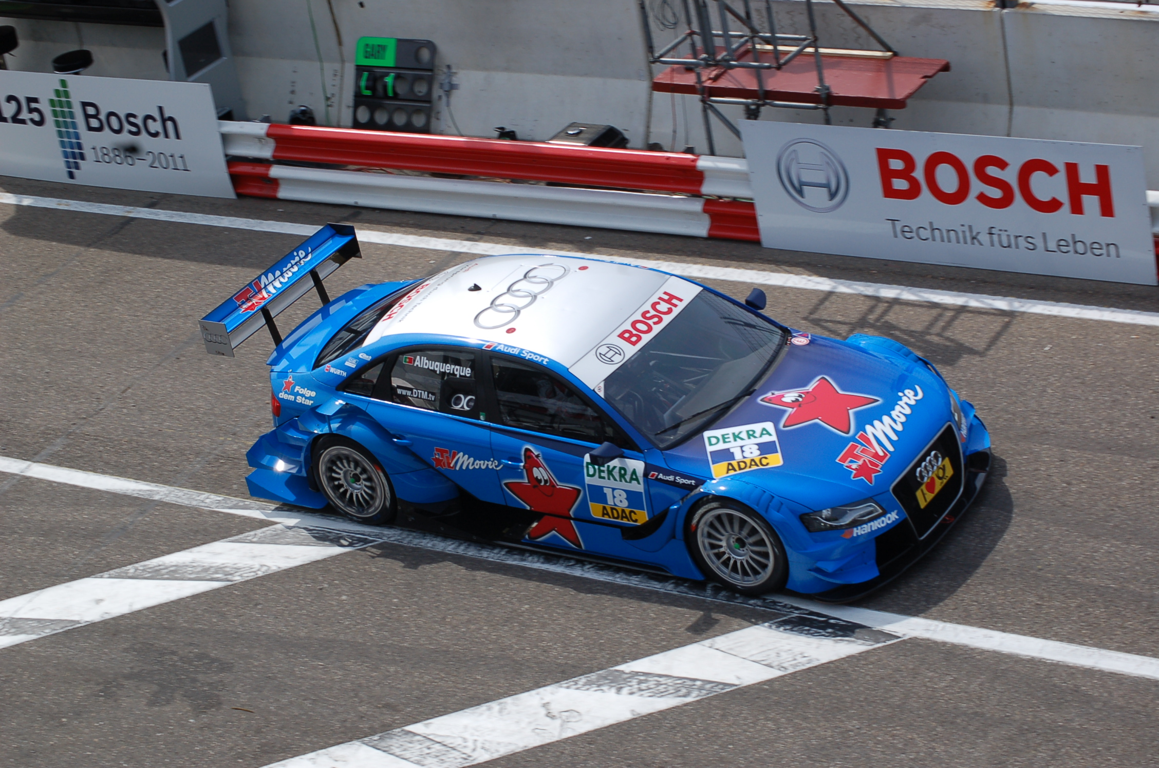 DTM-Car of Filipe Albuquerque 2011